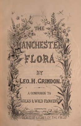 The frontispiece to The Manchester Flora, an 1859 book written by the Mancunian botanist Leopold Hartley Grindon